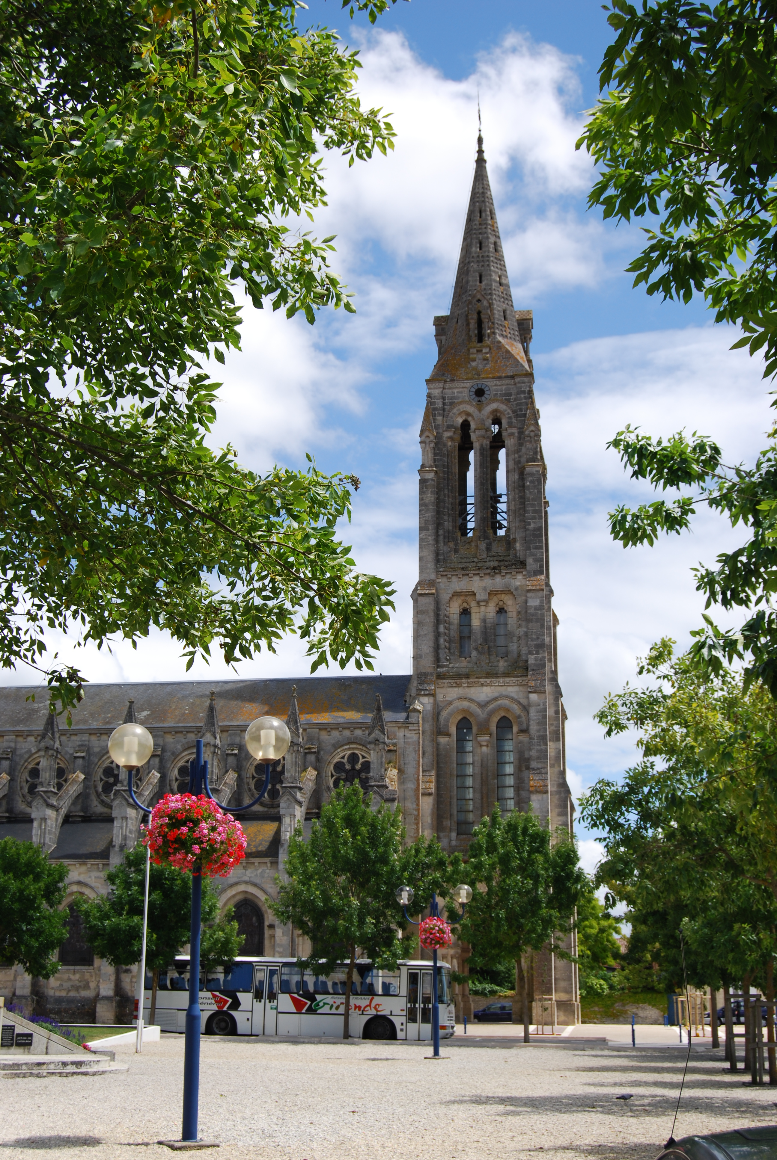 La church of Lesparre-Médoc.